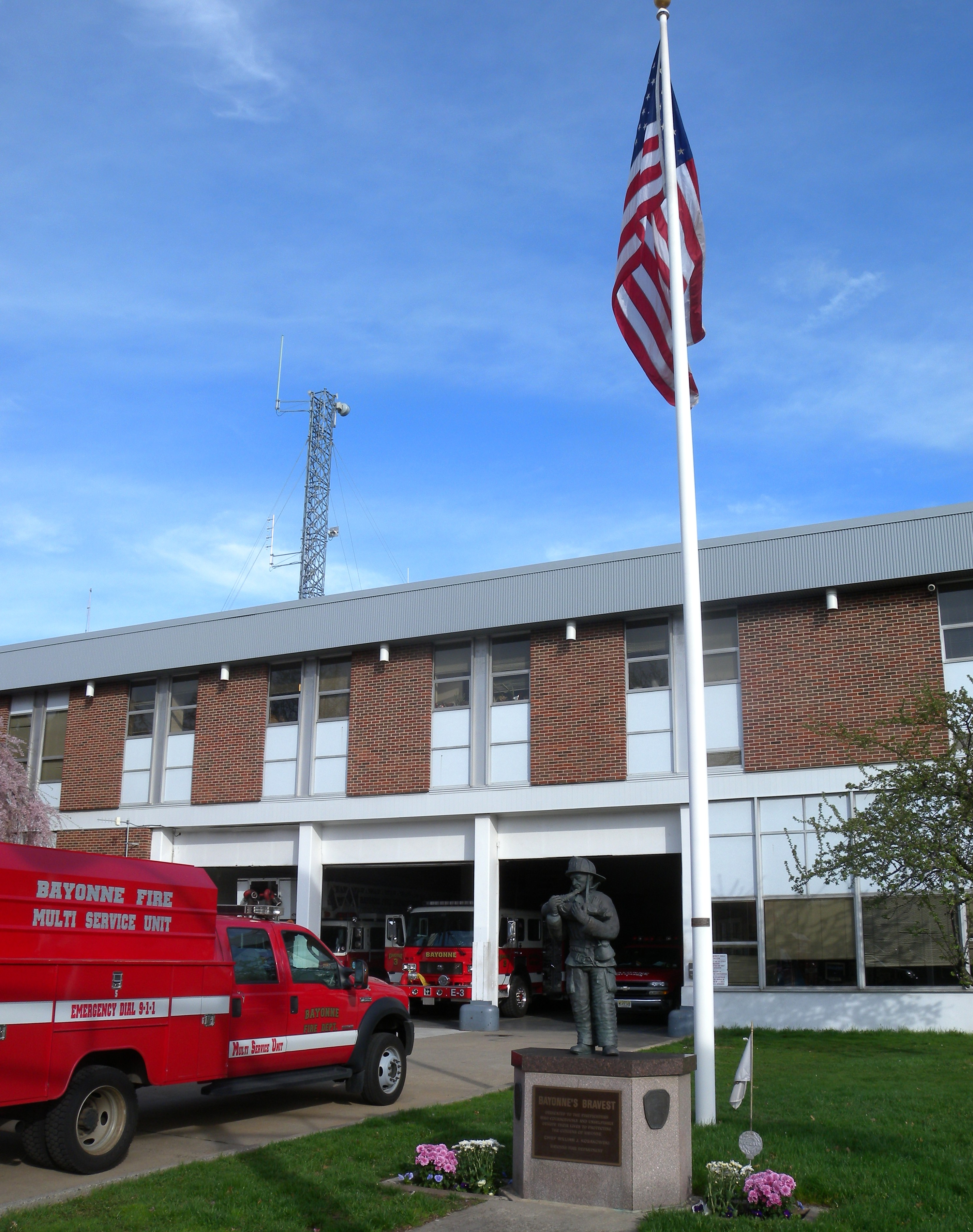 Looking east from Avenue C and 27th Street, at Multi Service Unit of Bayonne Fire Dept on a sunny afternoon. ZIP 07002.